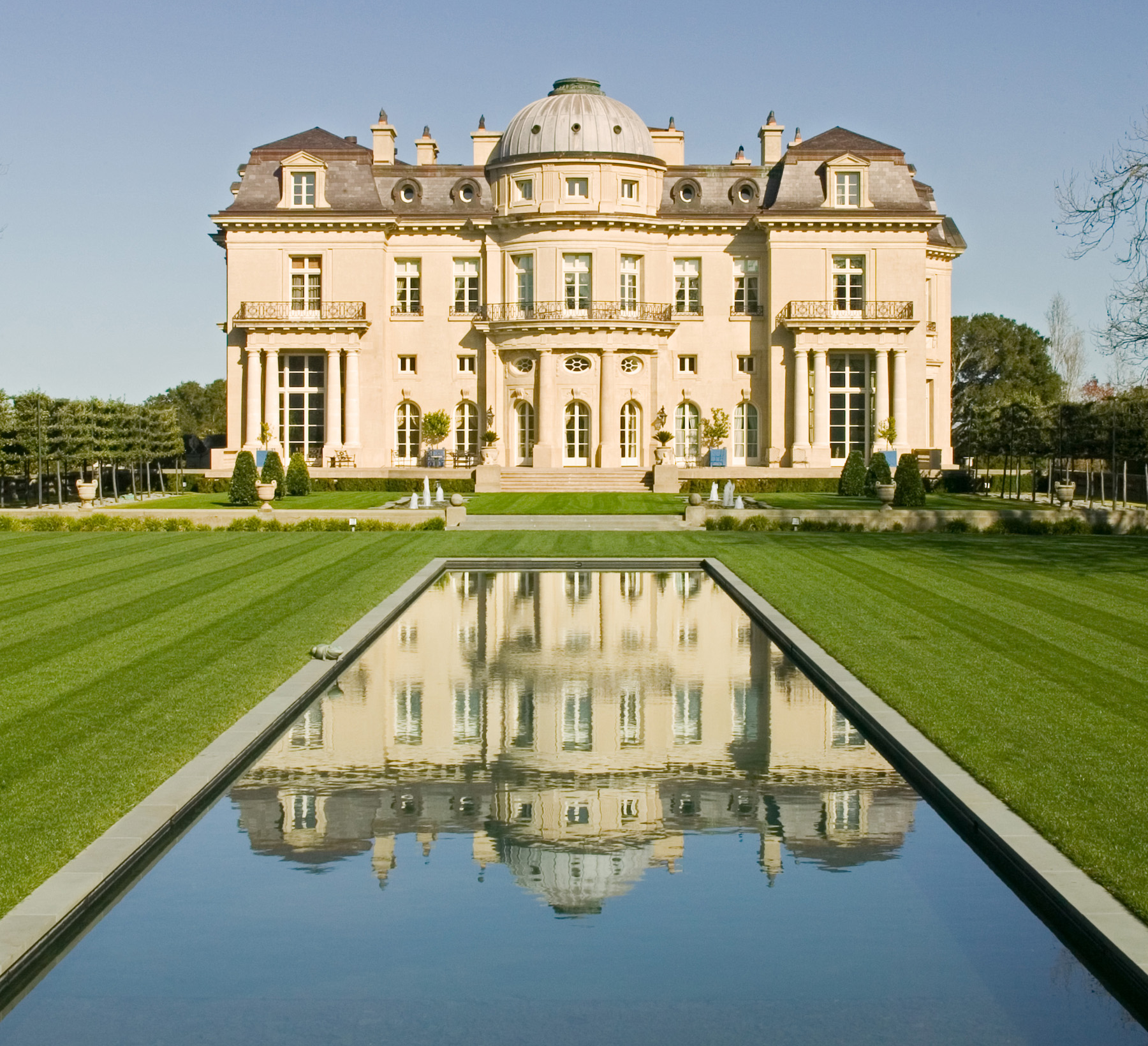 Photo of Chateau Carolands, photo owned by Gary Weimberg